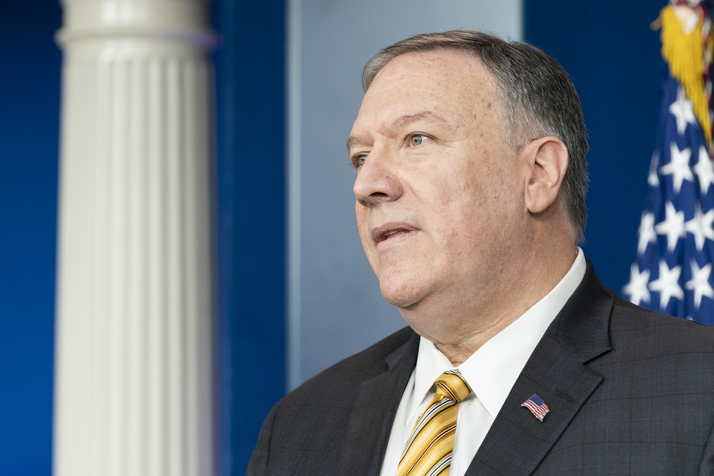 Secretary of State Mike Pompeo and Secretary of the Treasury Steven Mnuchin speak to reporters Tuesday, Sept. 10, 2019, in the James S. Brady Press Briefing Room of the White House. (Official White House Photo by Andrea Hanks)